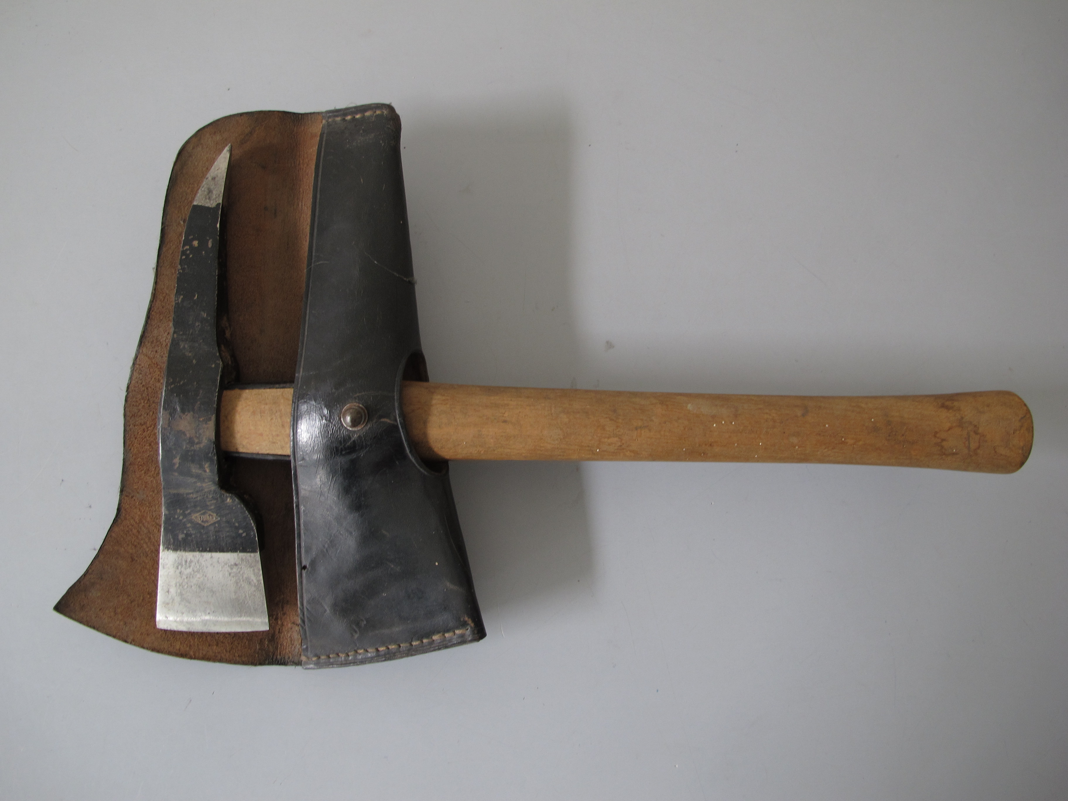 axes Hatchets